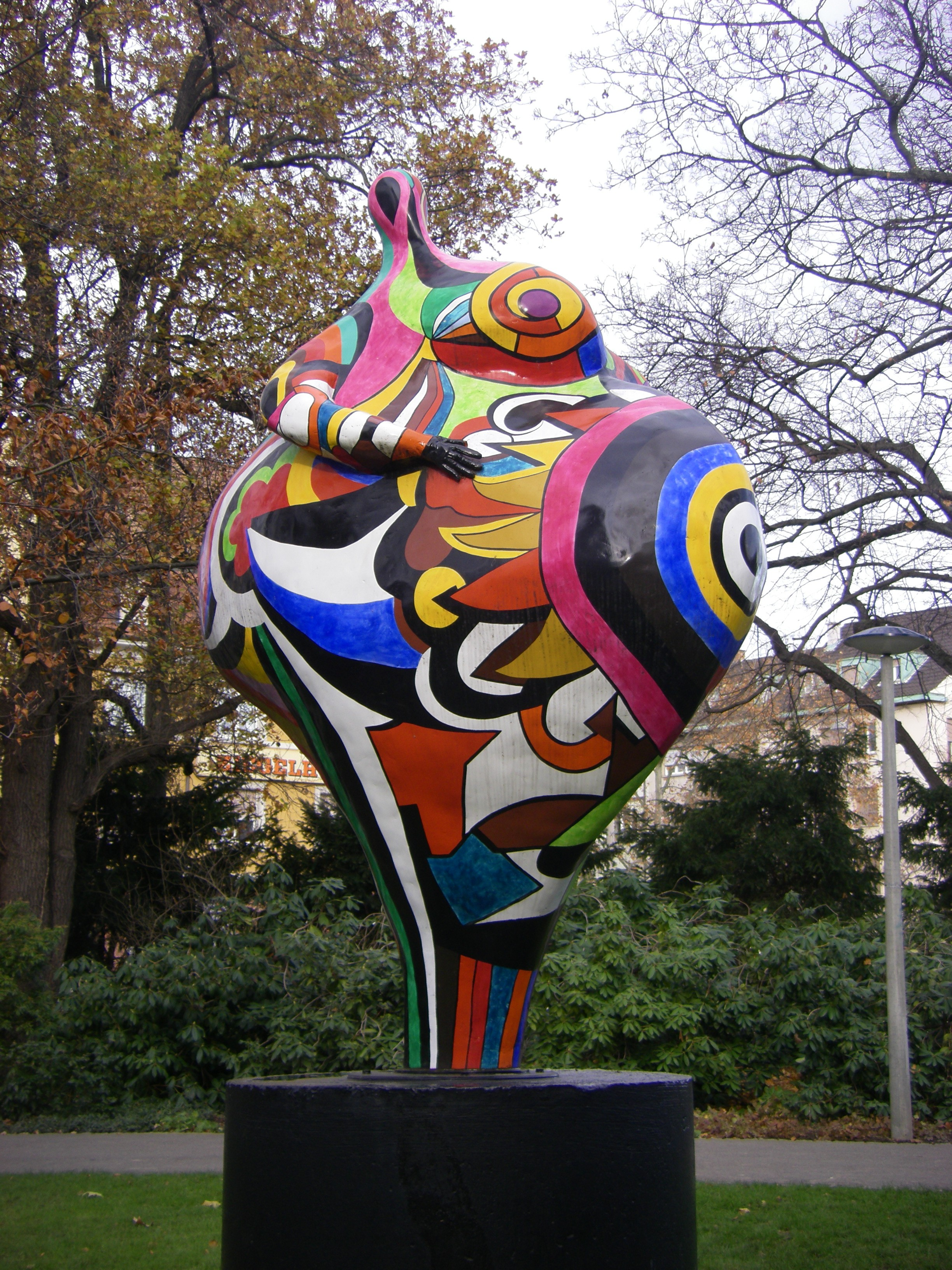 Nana Gwendolyn 2 in front of the Tinguely-Museum Basel, Switzerland.